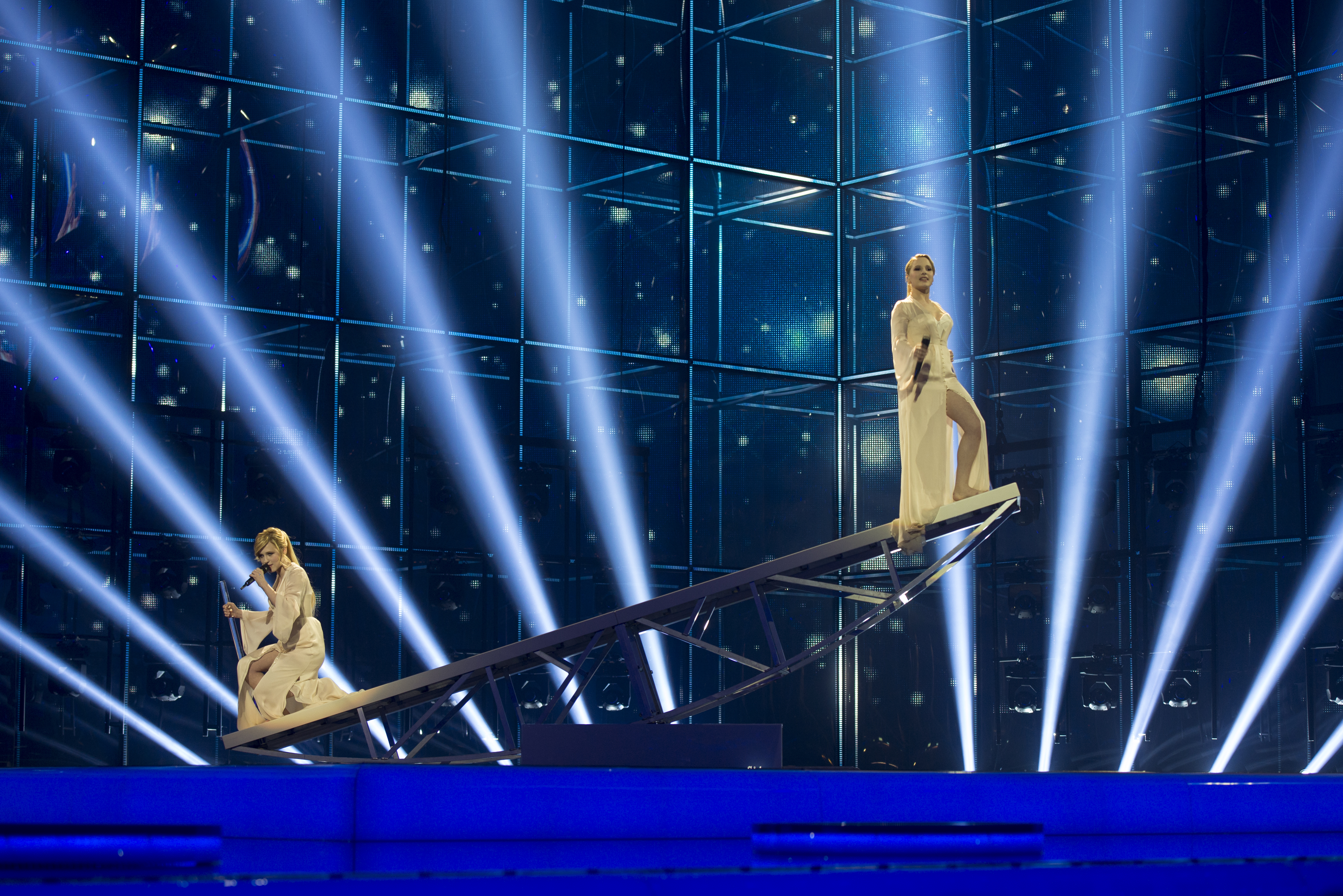 The Tolmachevy Twins representing Russia with the song "Shine" during the first dress rehearsal of the first semi final of the Eurovision Song Contest 2014 Copenhagen. (Help translate this text)